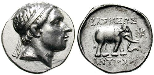 Antiochus III the Great (ca. 242 BC – 187 BC), king of the Seleucid Empire Seleucid Kingdom, Antiochus III AR Drachm. Perhaps Apamea on the Orontes mint. Diademed head right / BASILEWS ANTIOXOY, elephant right, MHI monogram to right. ESM 631.